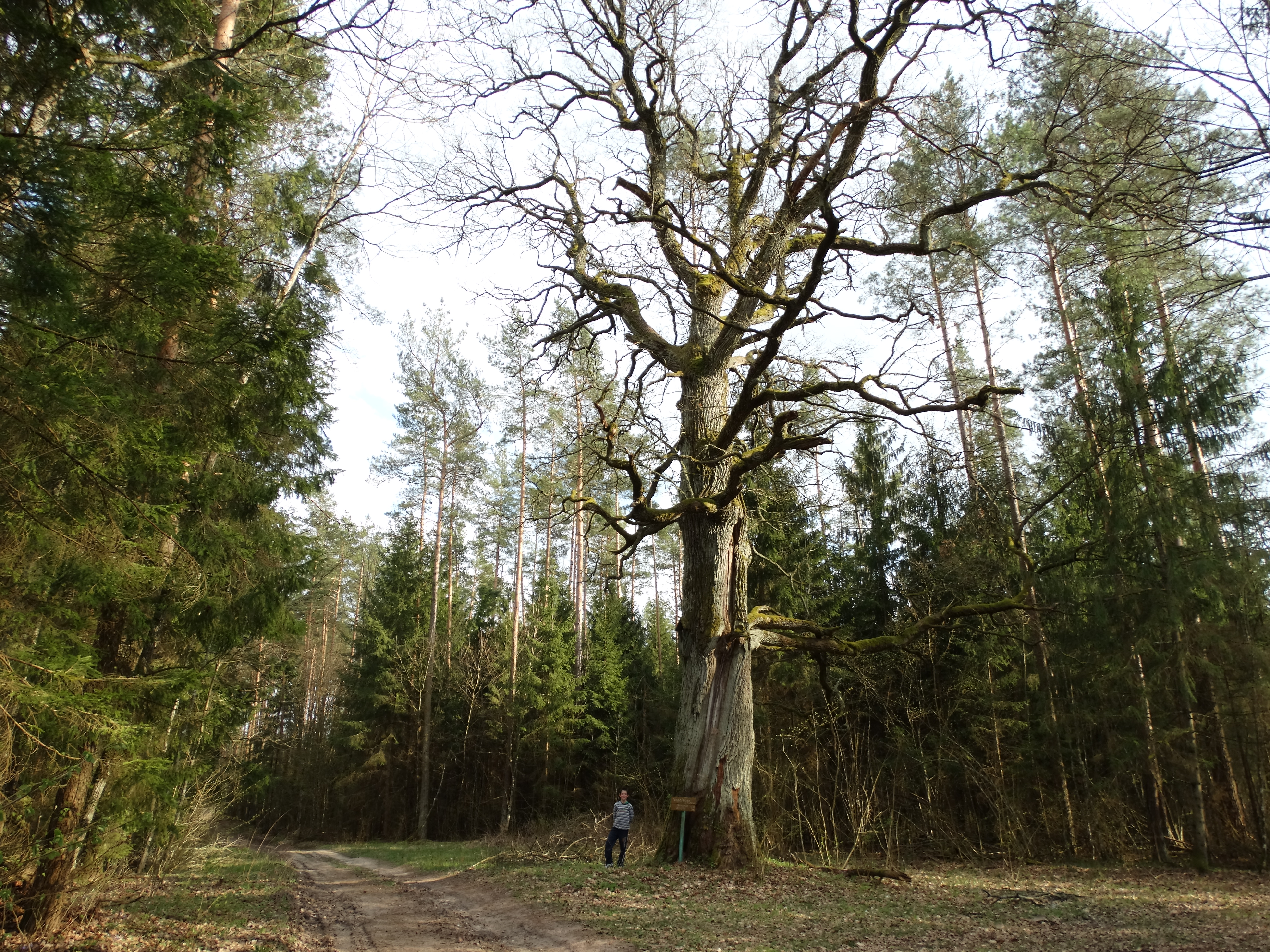 Napoleon Oak near Keižonys, Jonava district, Lithuania